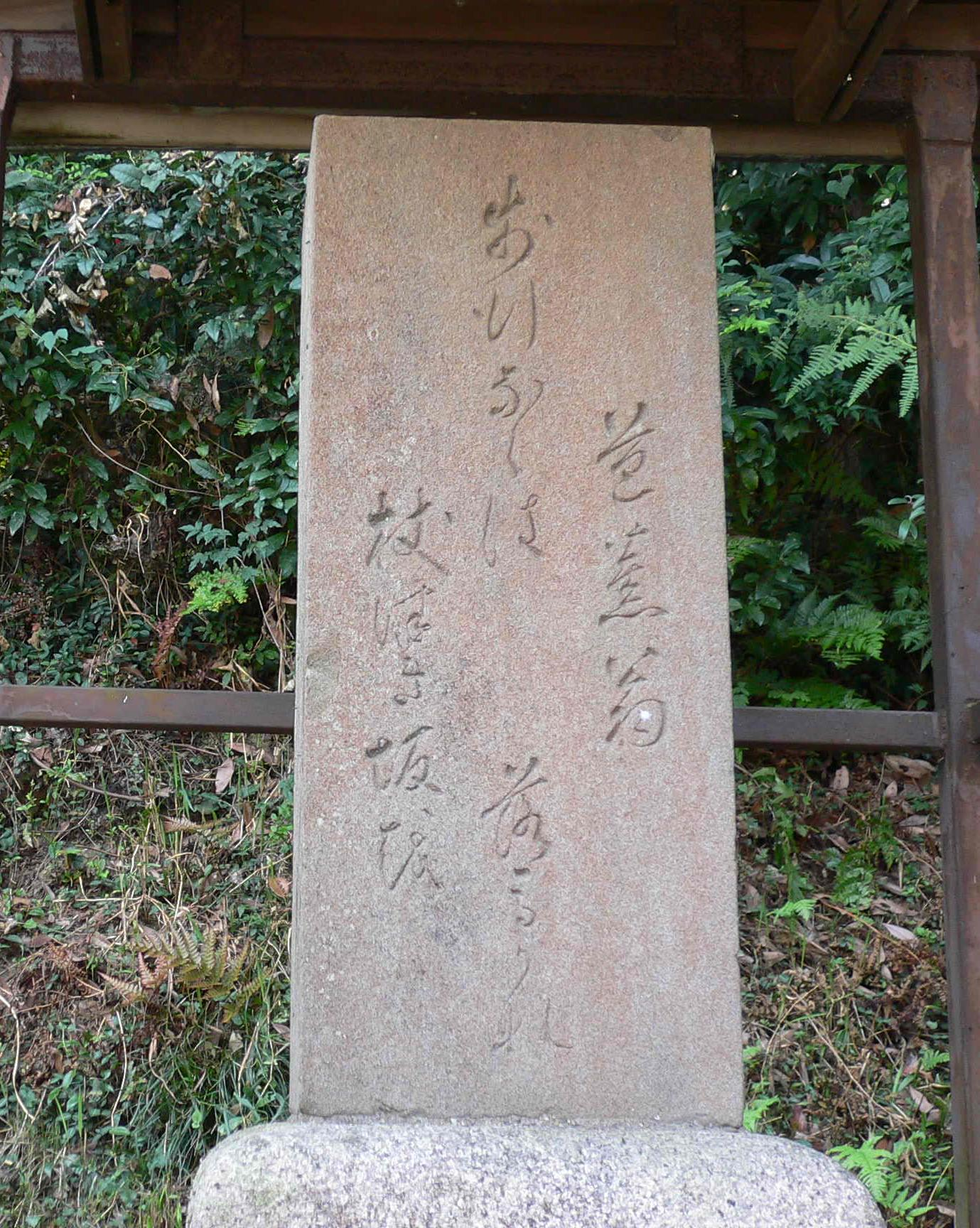 Tsuetsuki-slope, Yokkaichi, Mie Prefecture, Japan Poem by Matsuo Bashō